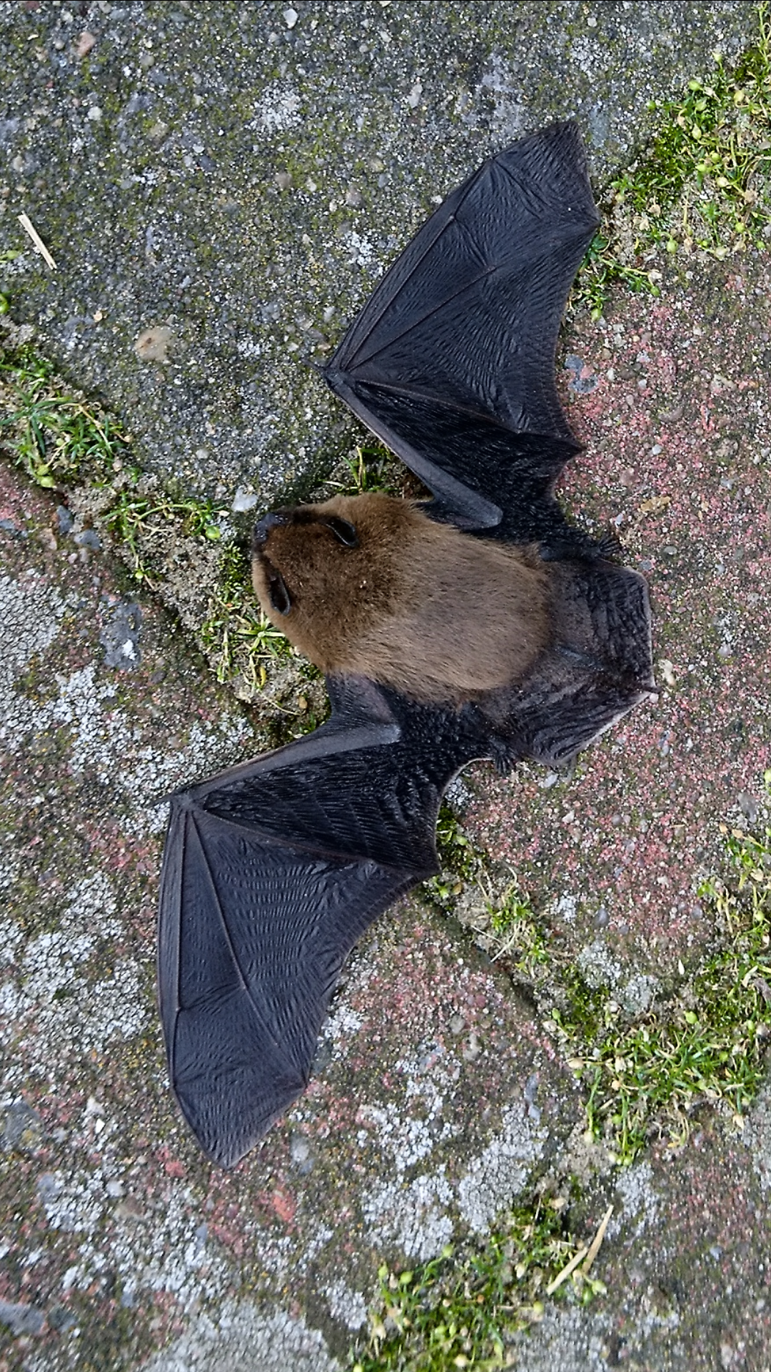 Common pipistrelle (Pipistrellus pipistrellus)